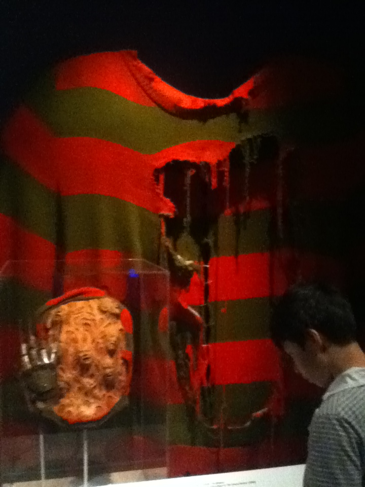 Freddy Krueger sweatshirt from the 4th film of the series